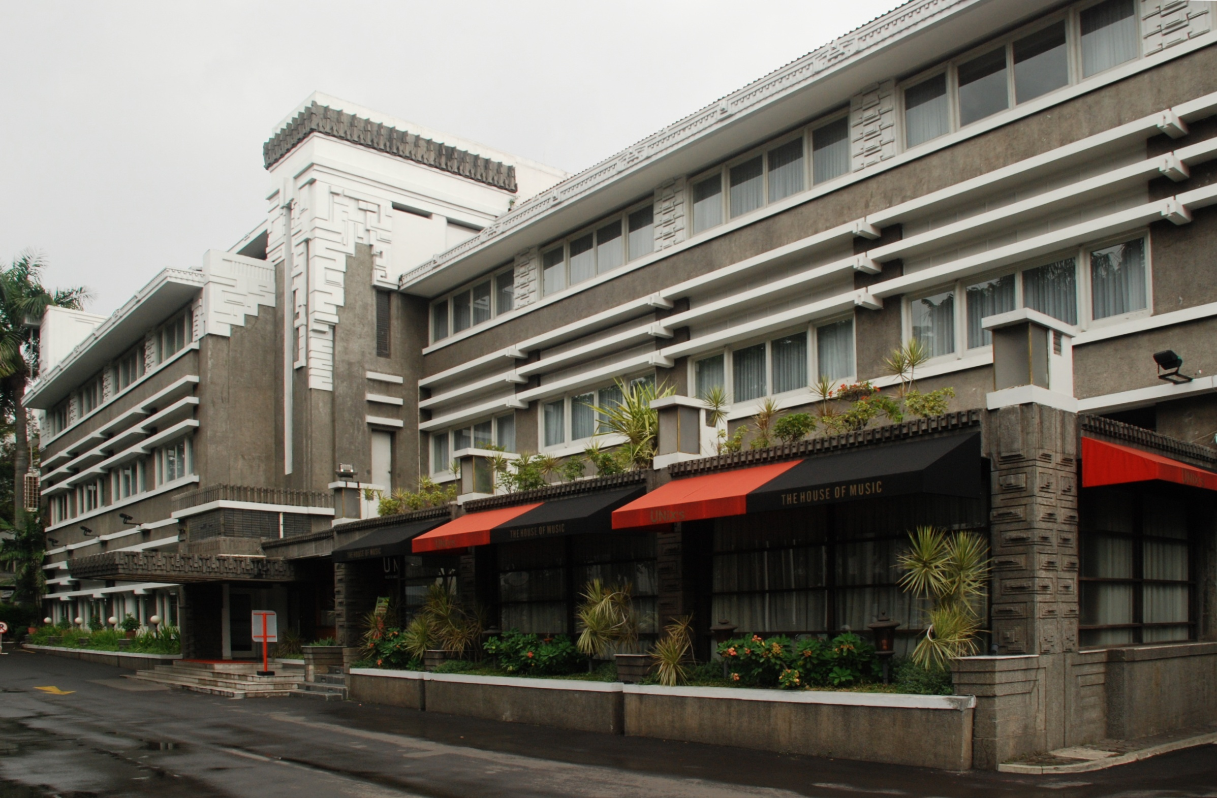 Hotel Preanger, Bandung, Indonesia.